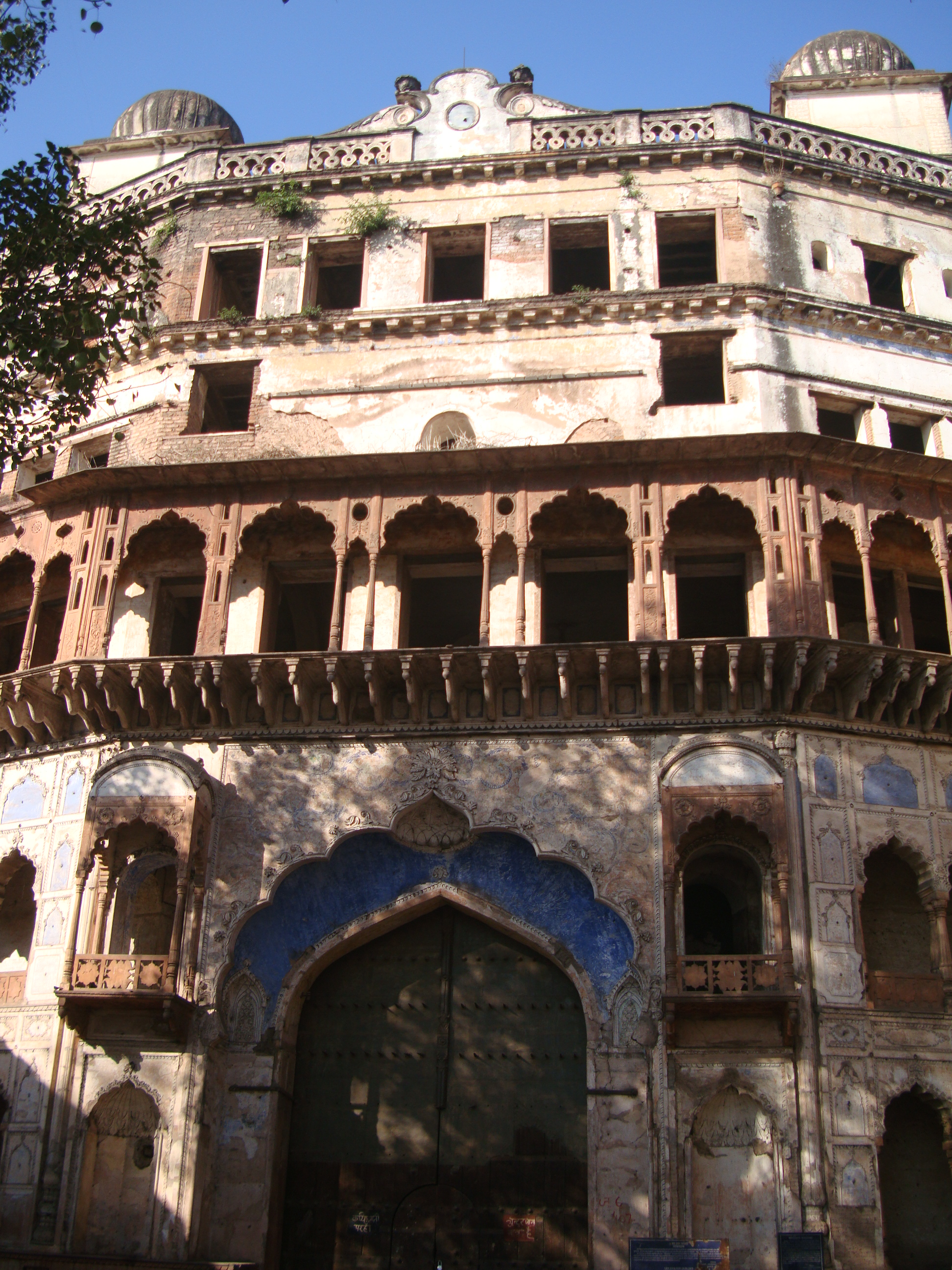 Taj Mahal